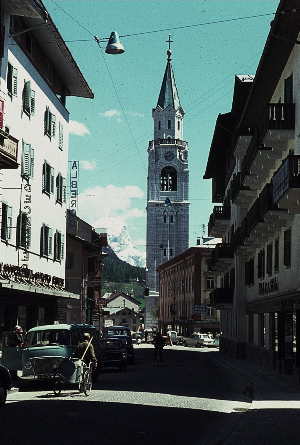 church tower of Cortina d'Ampezzo